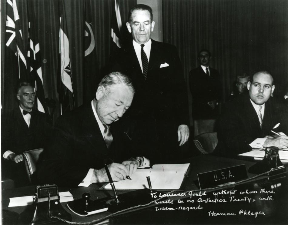 Signing of te antarctic treaty on December 1st 1959